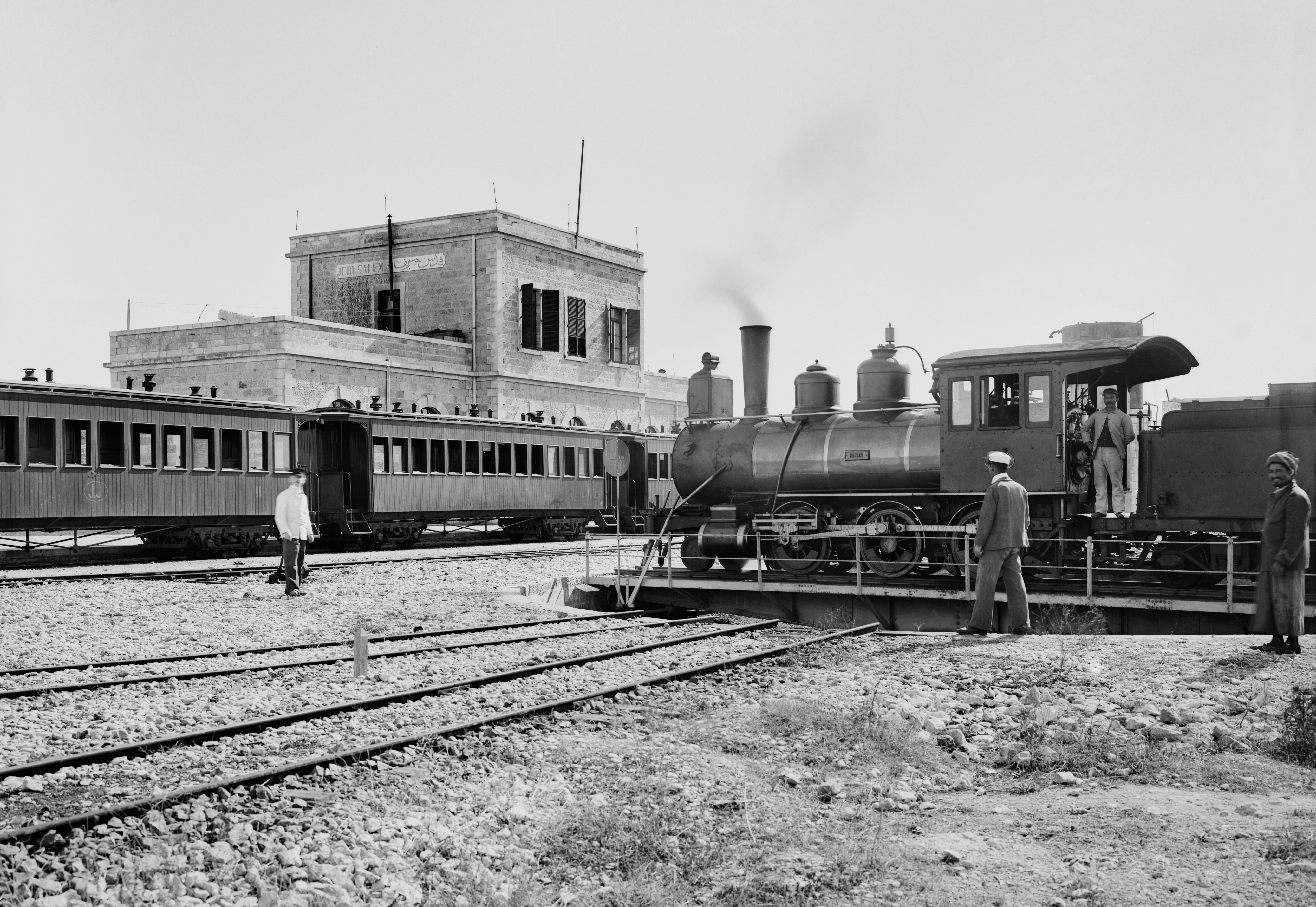 "Jerusalem (El-Kouds). The railway station." Glass negative, dry plate.